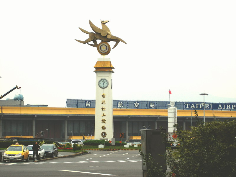 Songshan domestic airport in Taipei